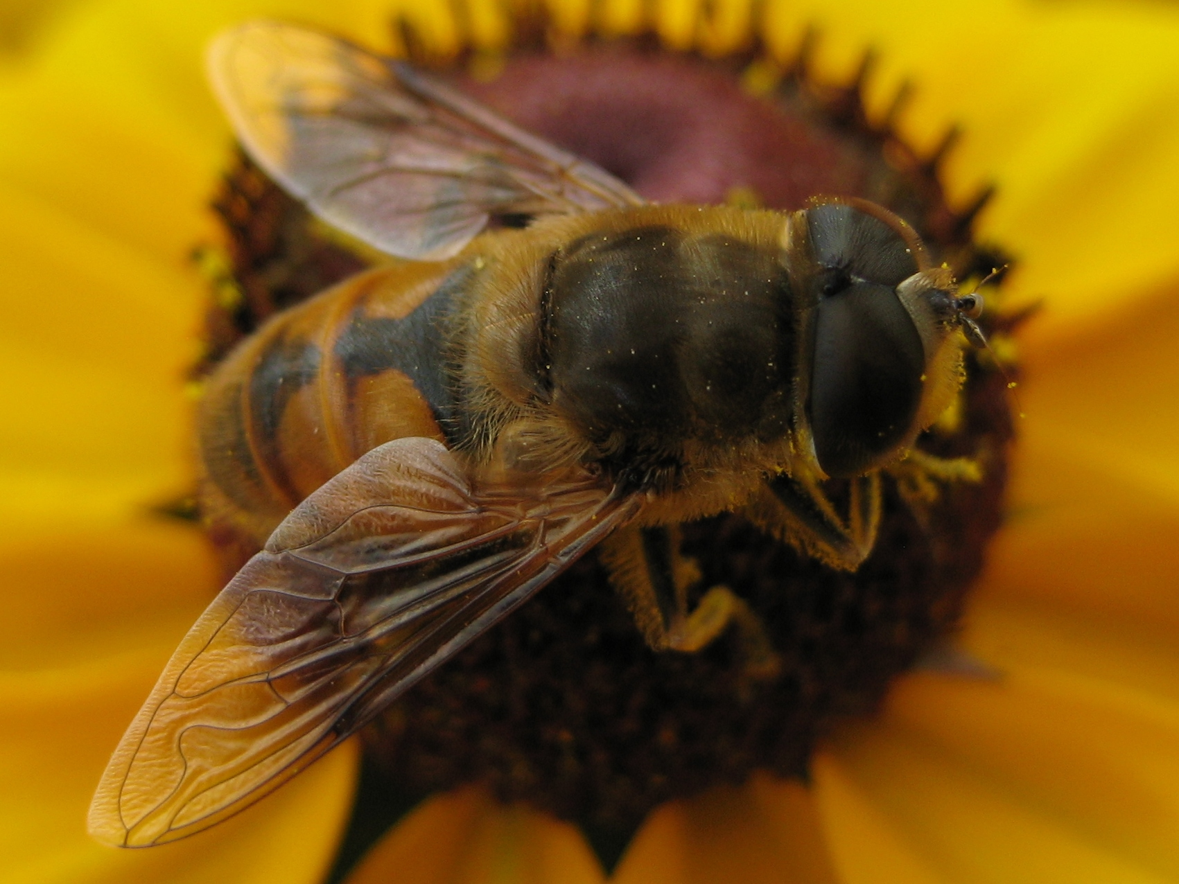 Hoverfly